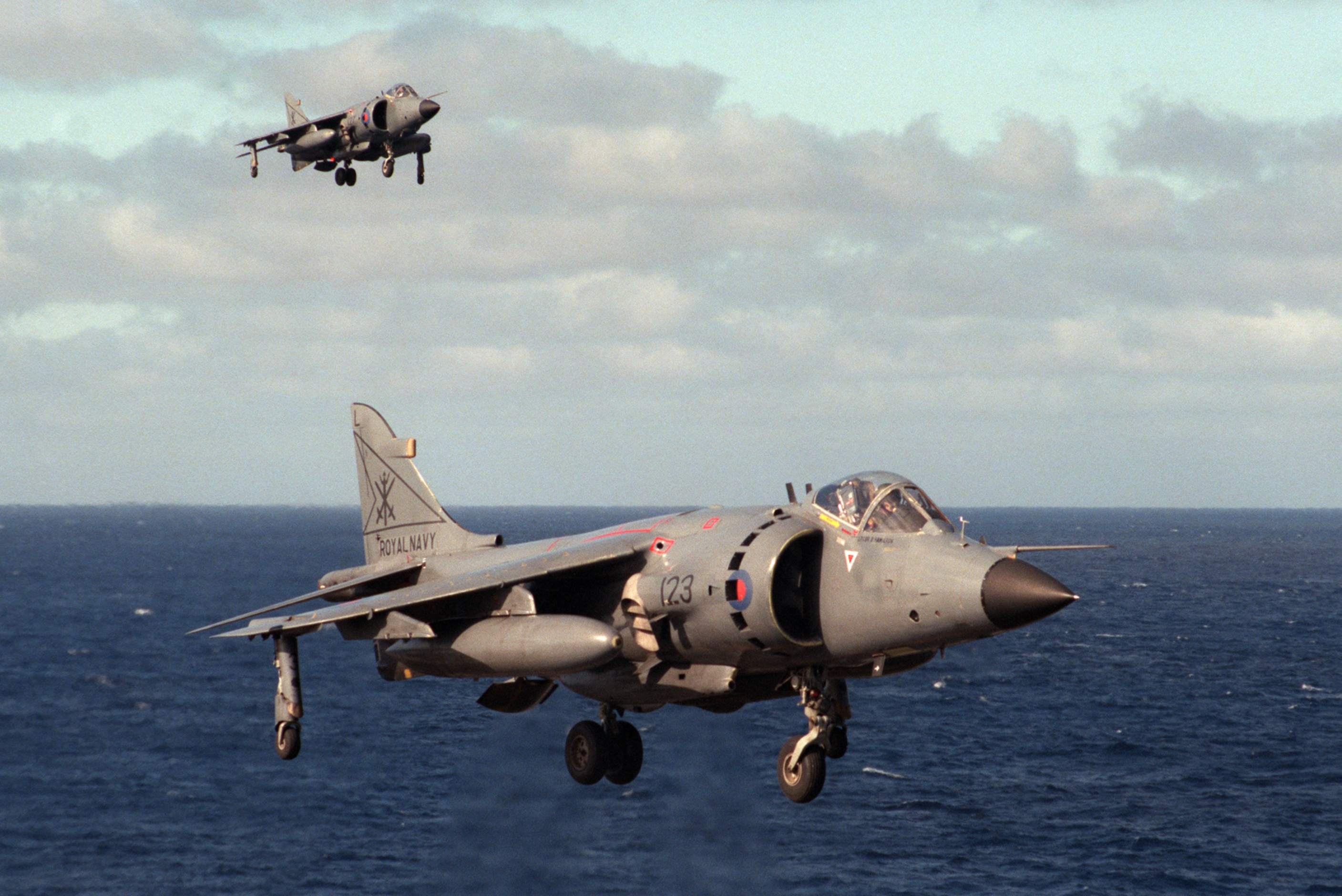 Royal Navy BAe Sea Harrier FRS.1s from No. 800 Naval Air Squadron on HMS Illustrious (R06) approach the flight deck the U.S. Navy aircraft carrier USS Dwight D. Eisenhower (CVN-69) on 22 October 1984.